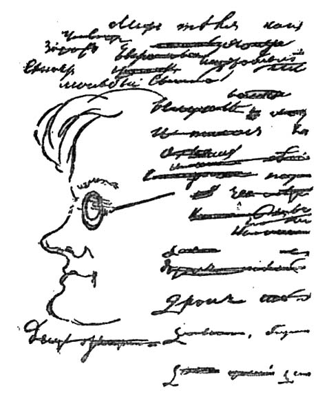 Pushkin'sportrait of Alexander Gorchakov (1798–1883), was a Russian statesman and chancellor.